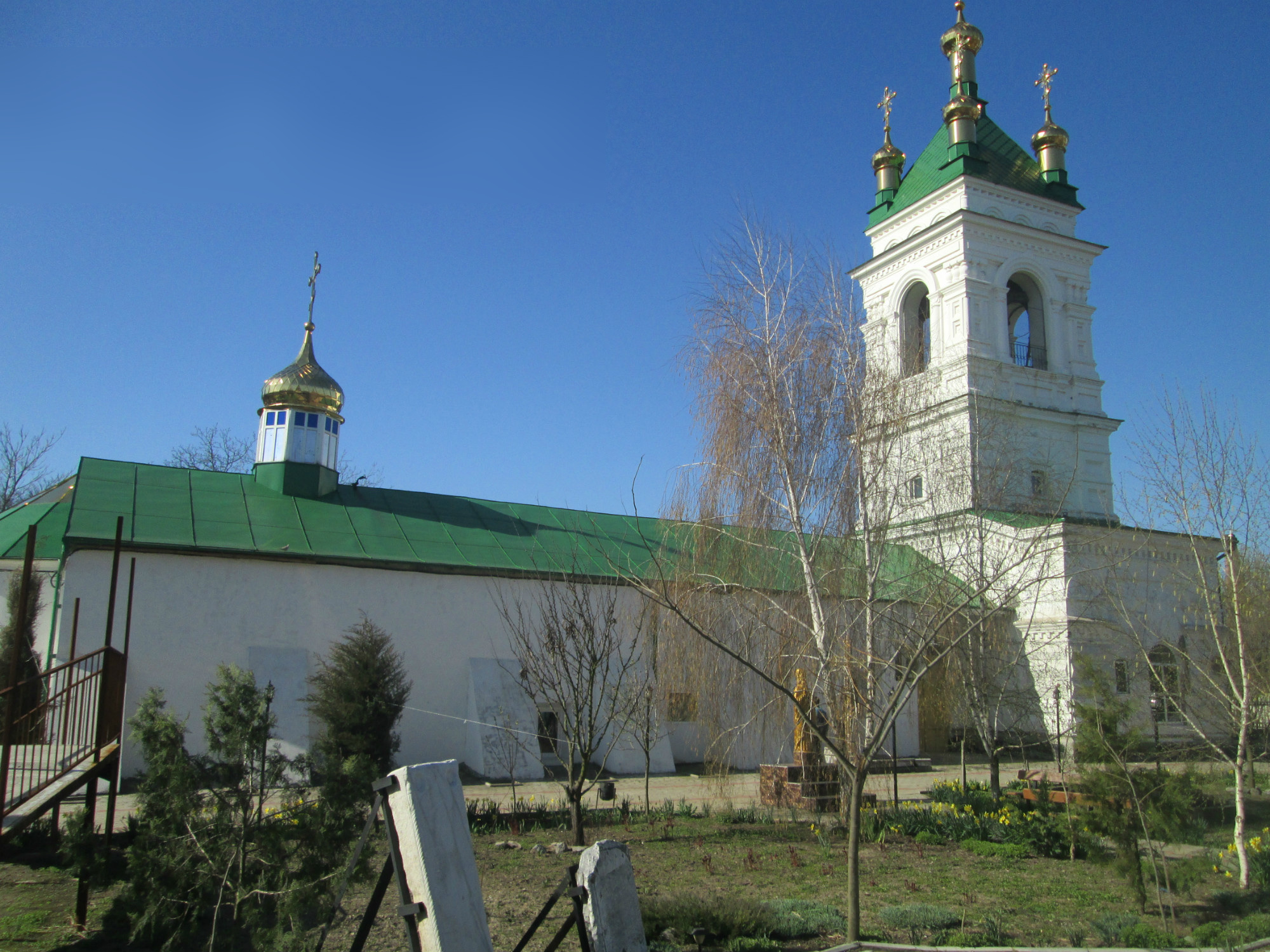 Saint Nicolas church in Kiliya